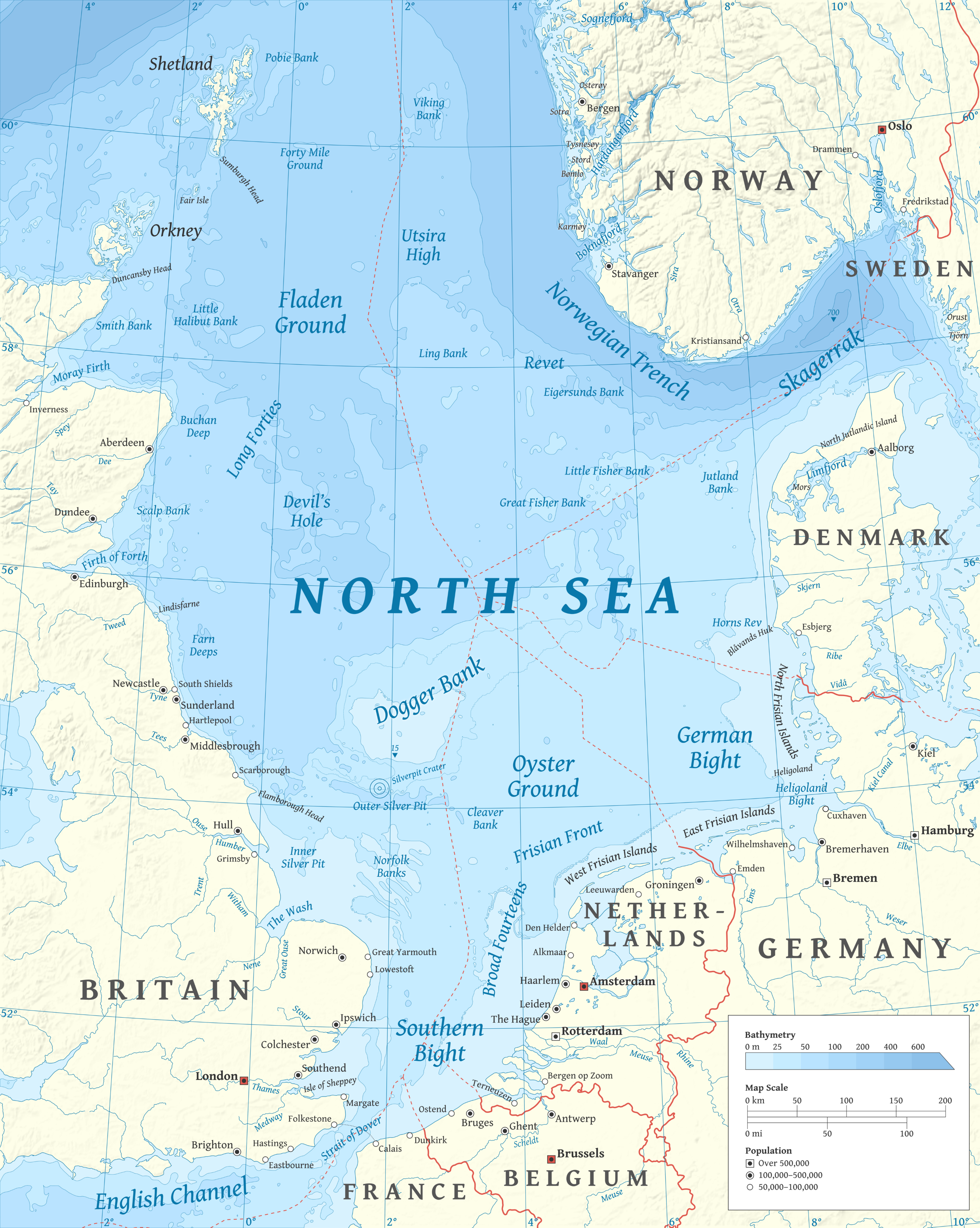 Map of the North Sea — in northern Europe including sea depths and the EZZs.